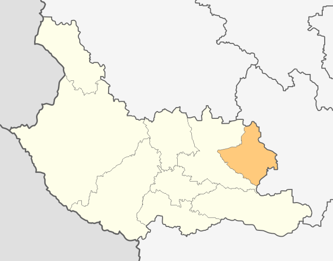 Map of Sapareva banya municipality, Kyustendil Province